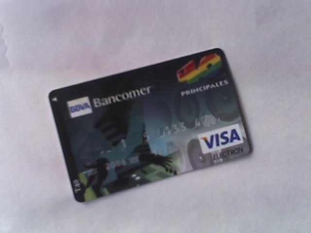 40 Card